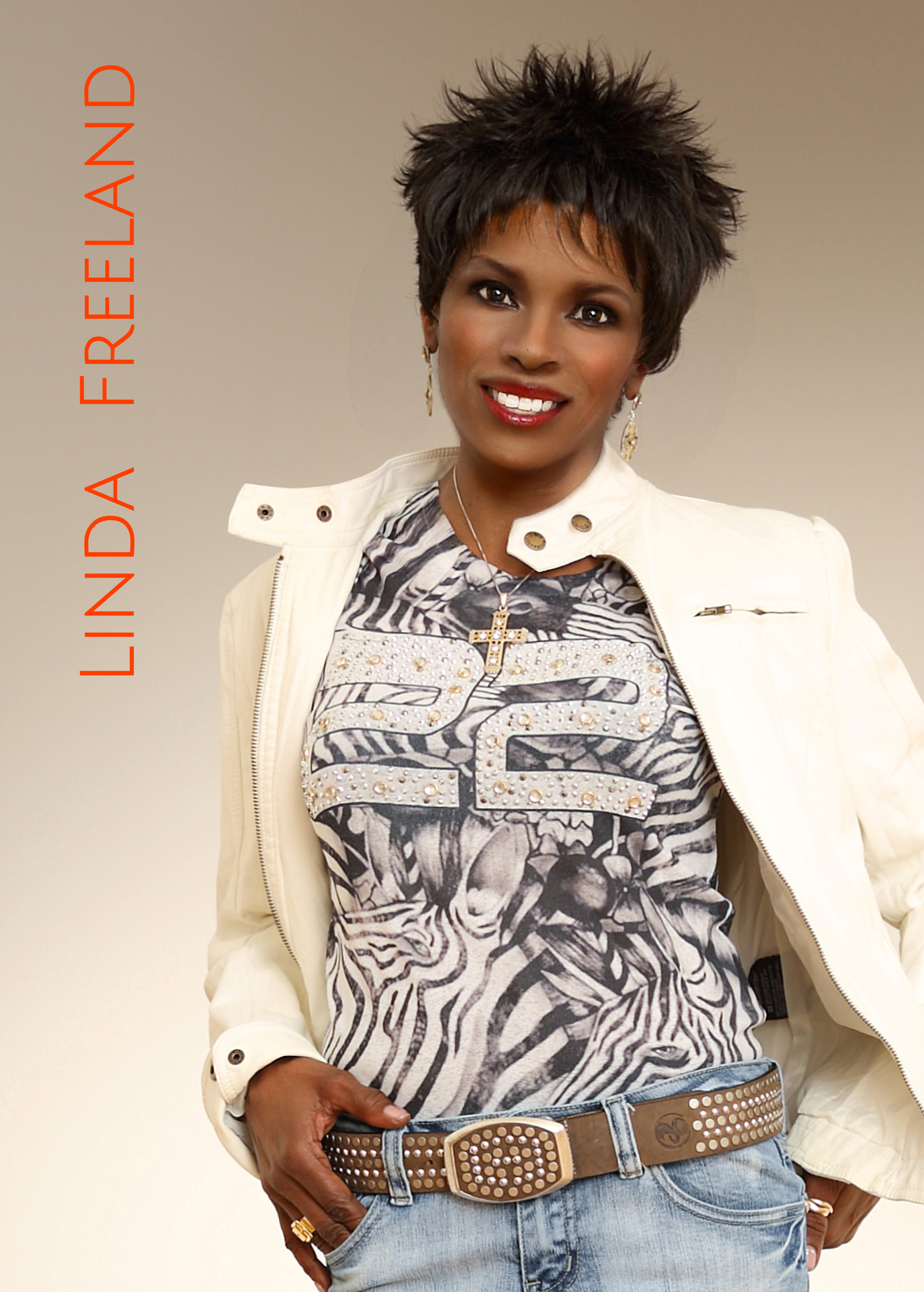 Linda Freeland 2016